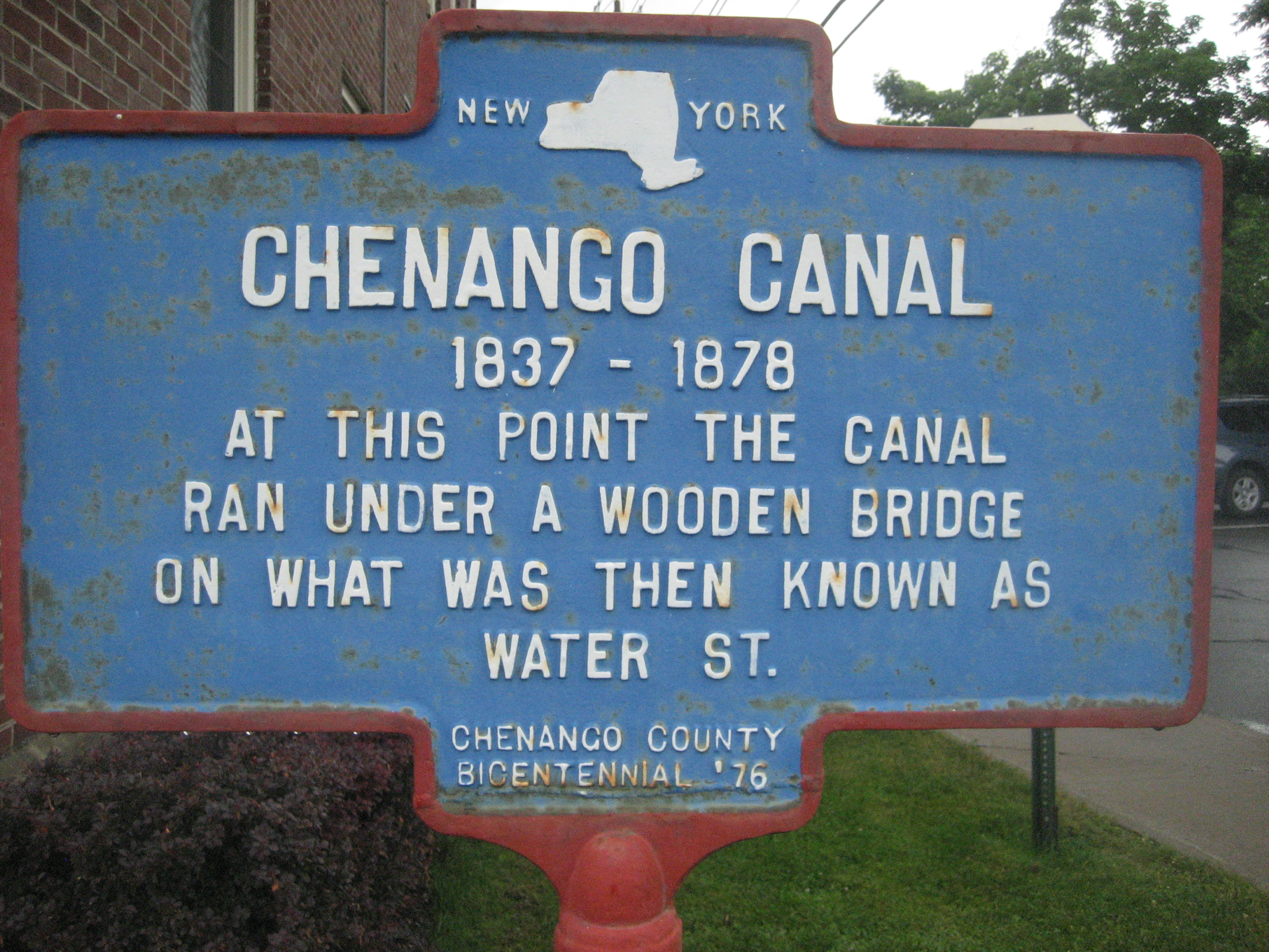 Historic marker of Chenango Canal # 3, where the canal ran under a wooden bridge, then called Water Street, Sherburne, NY.